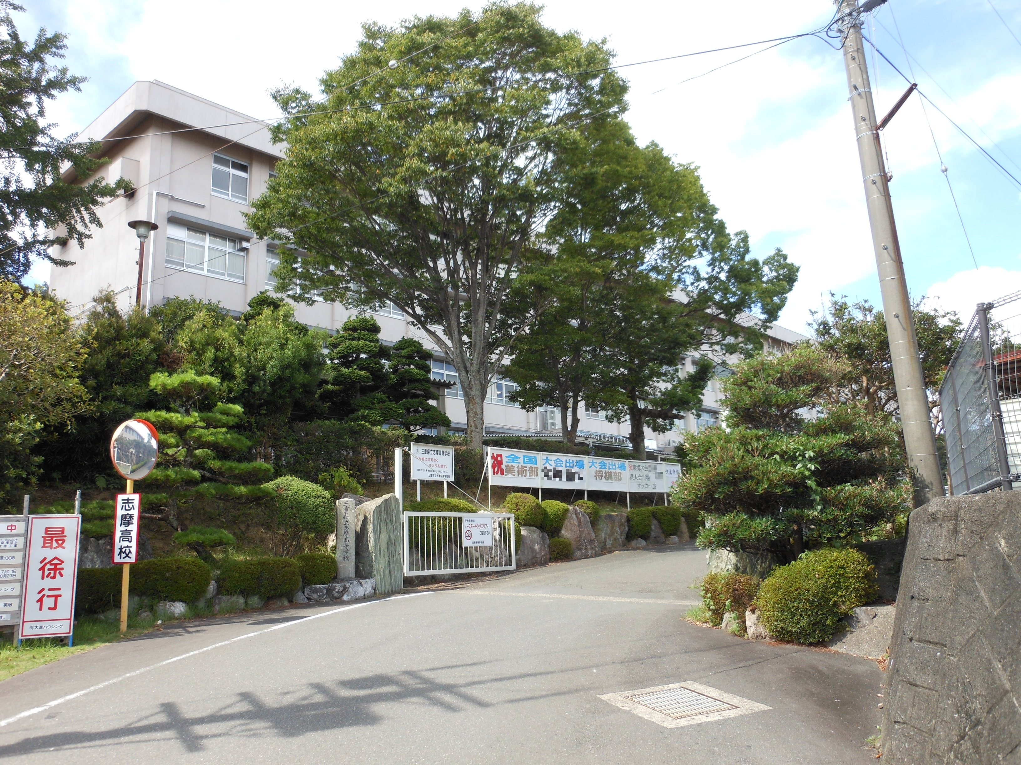 High school in Japan.